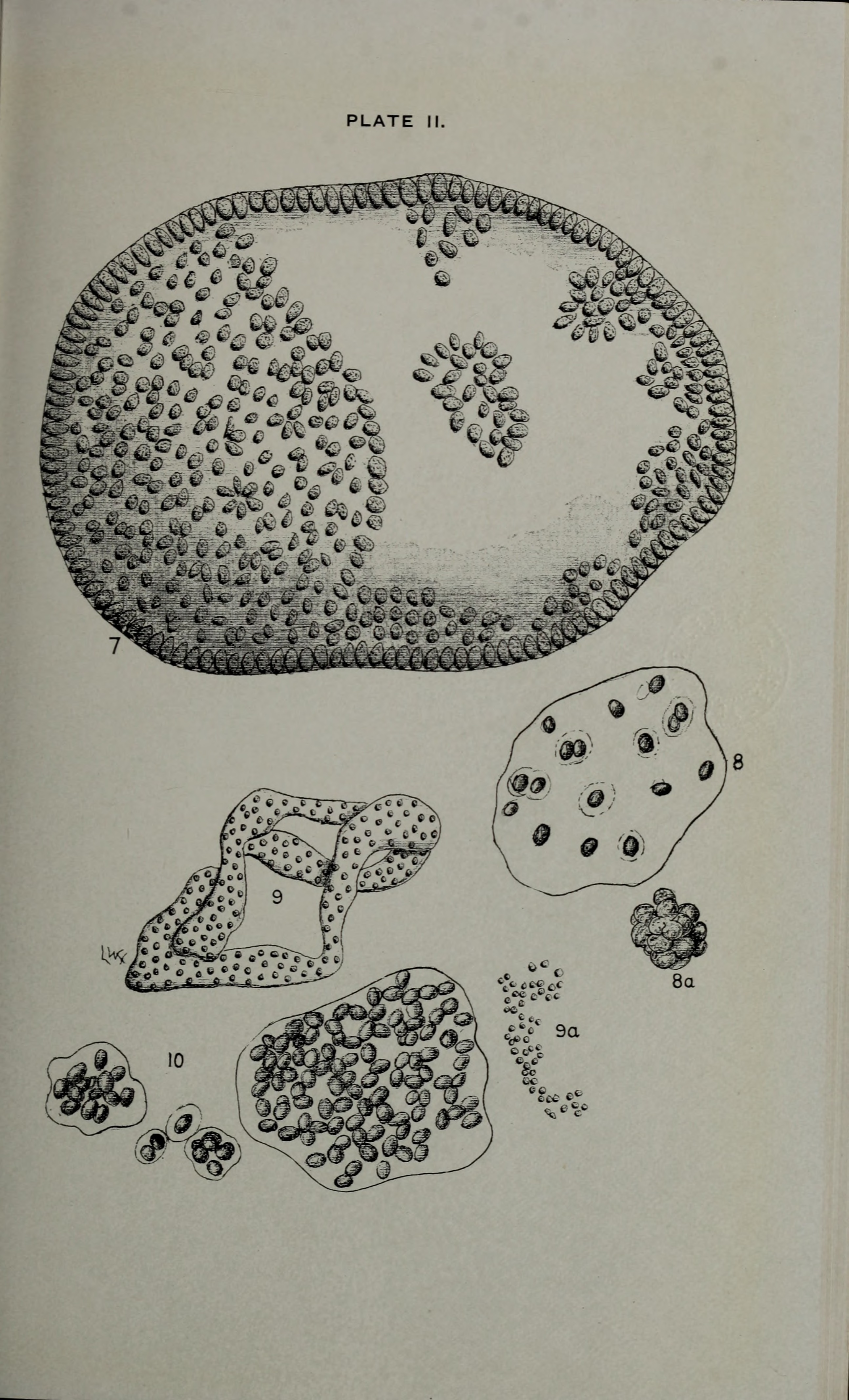 Title: The algae of the fresh waters of Connecticut Year: 1908 (1900s) Authors: Conn, H. W. (Herbert William), 1859-; Webster, Lucia Washburn Subjects: Algae Publisher: Hartford : Printed for the State Geological and Natural History Survey Text Appearing Before Image: ' Text Appearing After Image: '